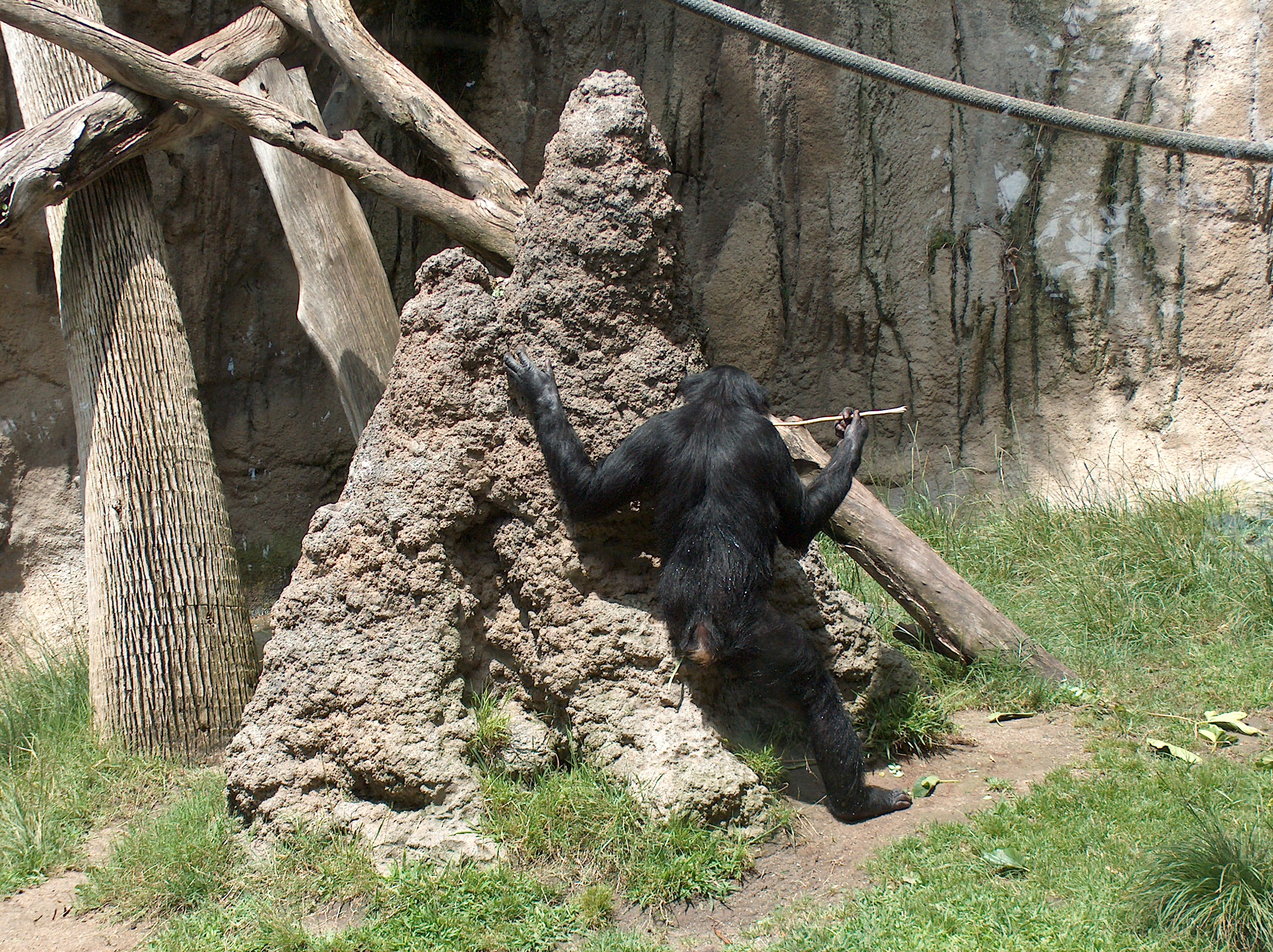 Bonobo at the San Diego Zoo "fishing" for termites. The photo was taken through glass, so if anyone wants to photoshop it to remove artifacts of the glass, please be my guest. Photo taken by User:Mike R on 8 August, 2005.